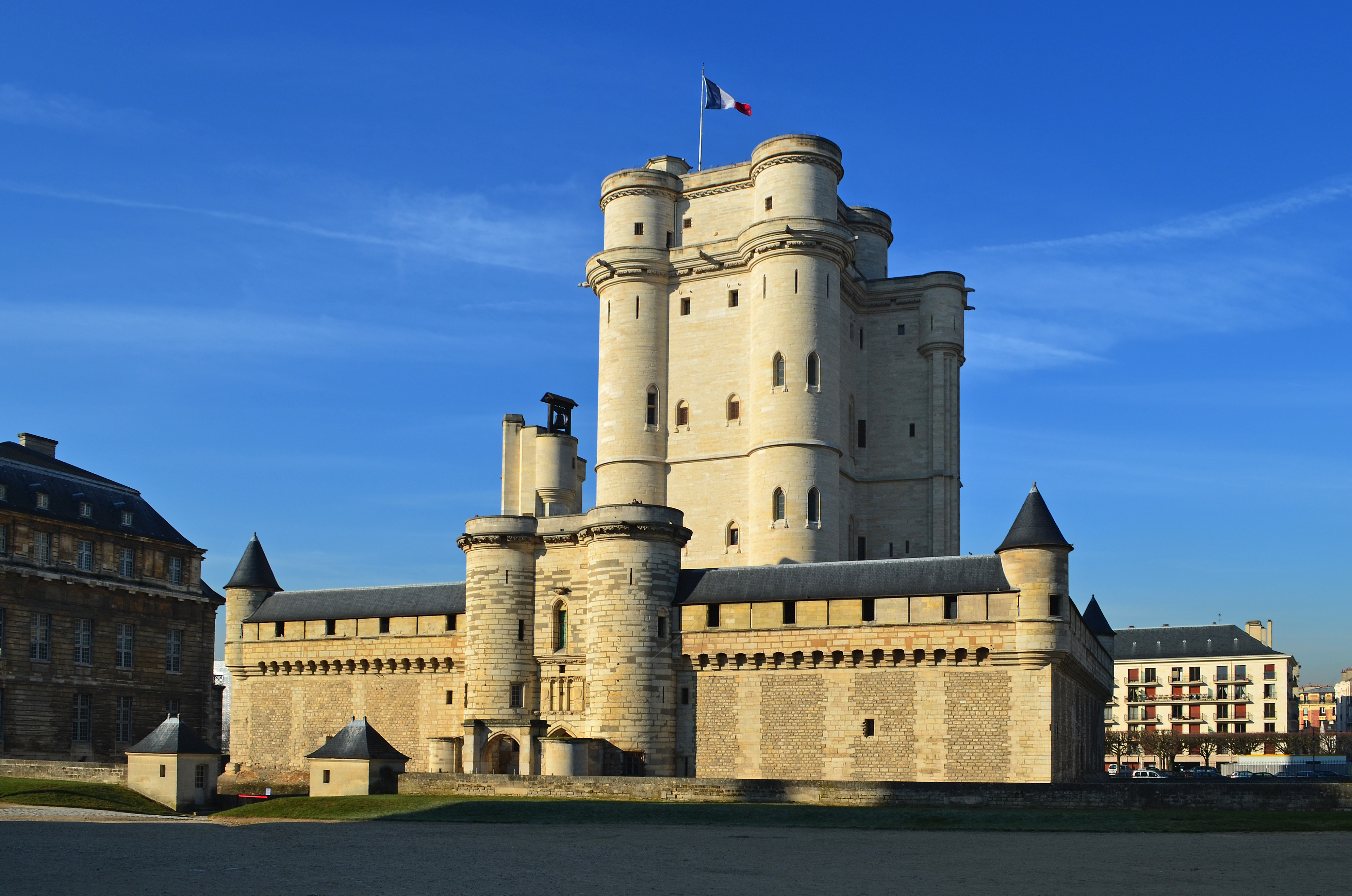 Keep of the castle of Vincennes - Vincennes, France